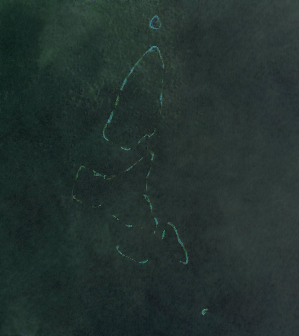 Landsat 7 satellite image of the North Luconia Shoals in the South China Sea southwest of the Spratly Islands on the continental shelf in front of the Malaysian state of Sarawak. The exposure of the image has been increased by about 12 f-stops. The original color (RGB: 52,29,61) is purplish, therefore a color overlay was used which is based on the color (RGB:6,36,47) of the Satellite Image of Bing Maps for this coordinates 5°36′0.0″N 112°36′0.0″W / 5.6°N 112.6°W.